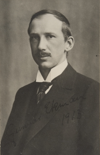 Photograph of the Finnish biologist Gunnar Ekman (1883–1937).